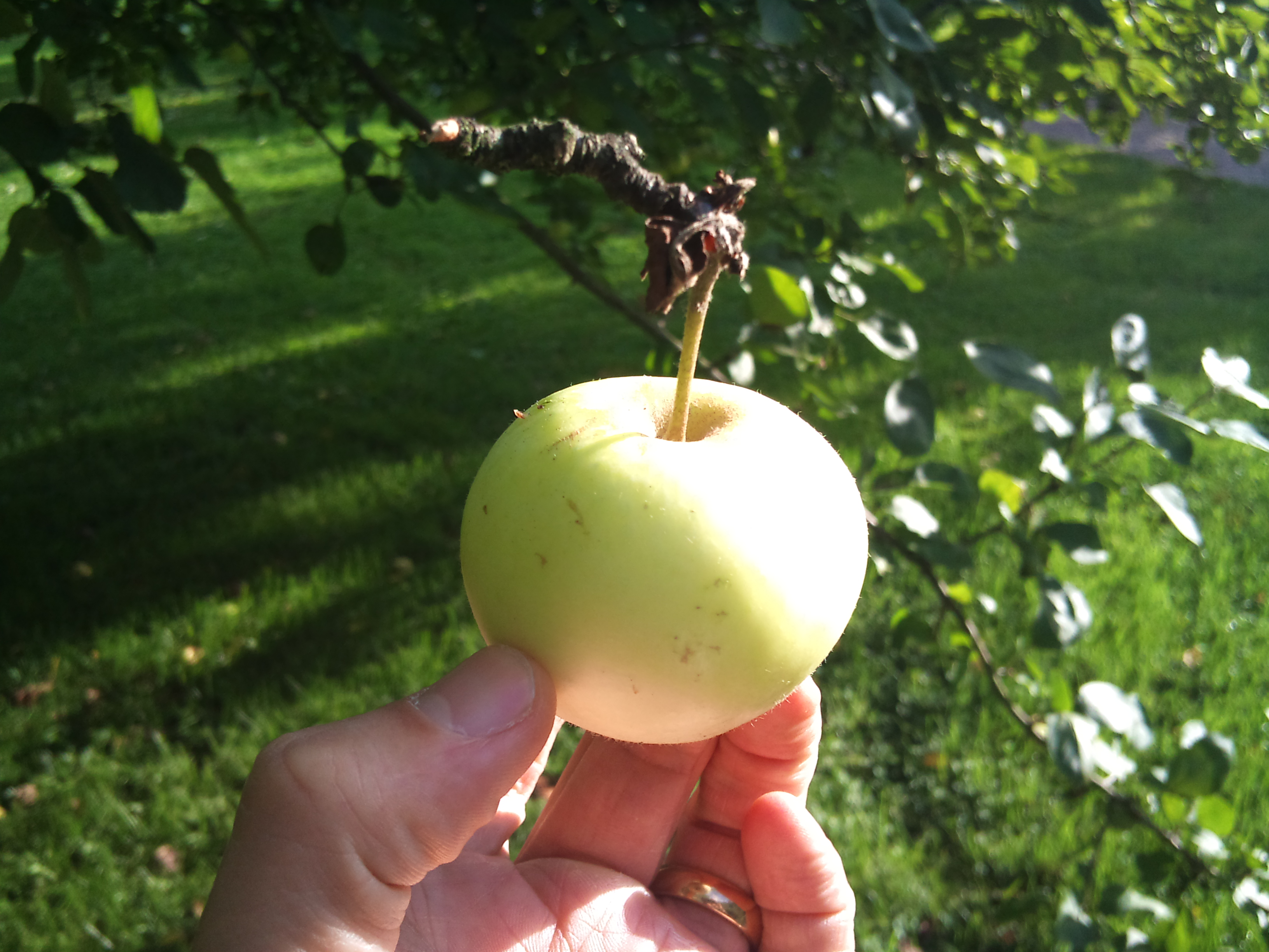 A Swedish apple variety.